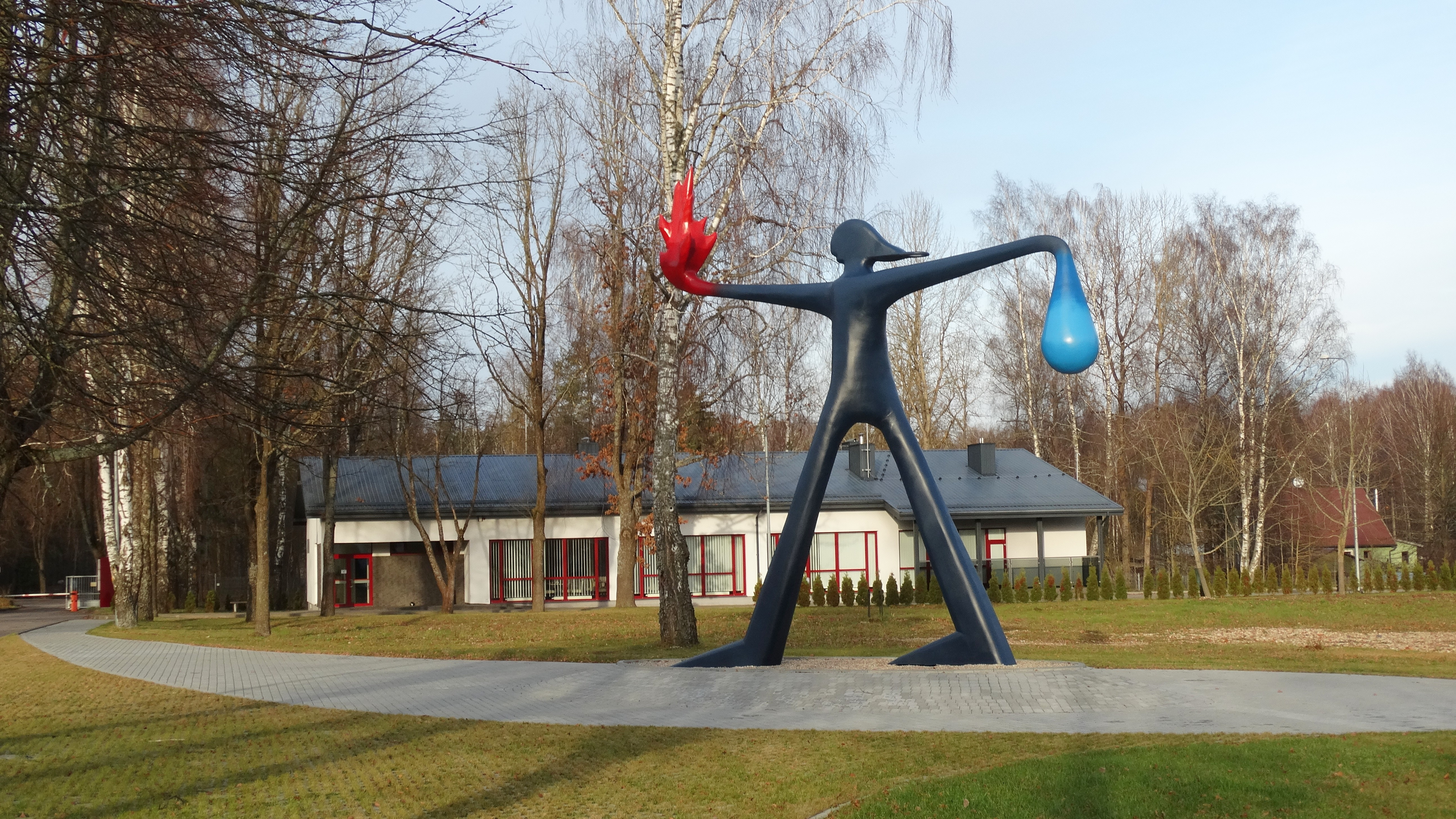 School of firefighters, Valčiūnai, Vilnius District, Lithuania